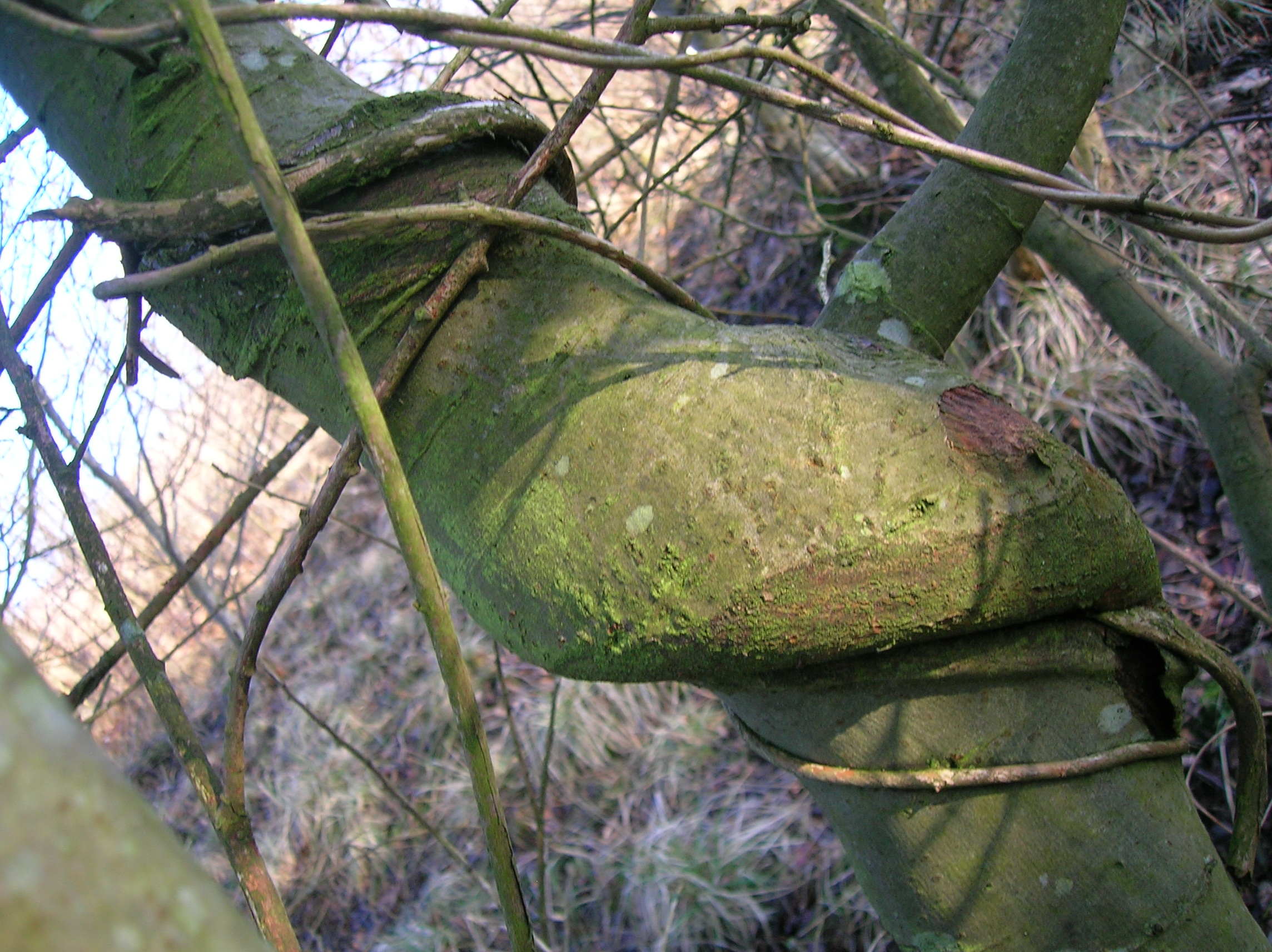 Woodbine on Willow causing woodbine, Eglinton, Ayrshire, Scotland